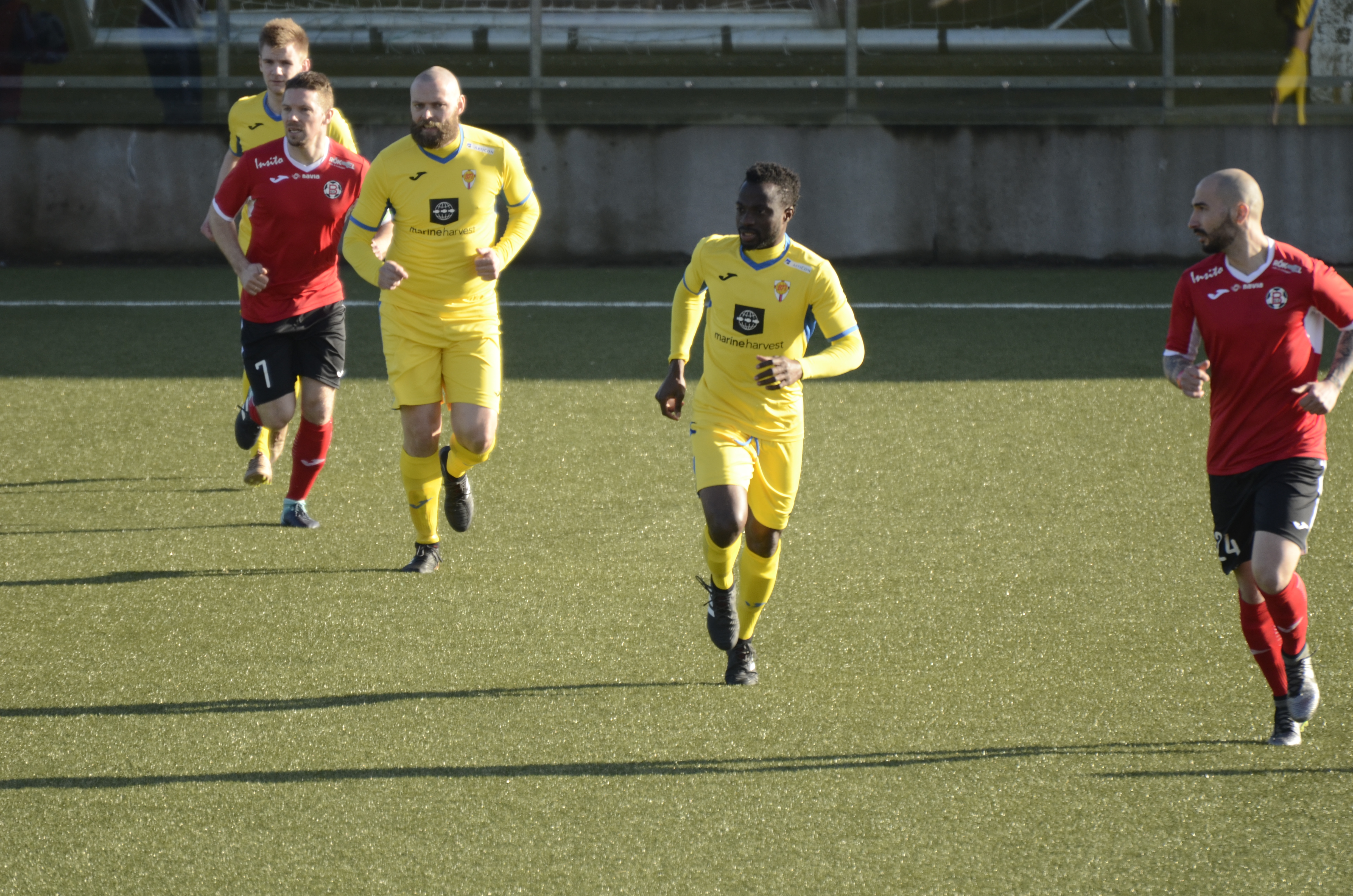 Rói Klementsen, Símin Hansen and Tijani Mohammed in the new all yellow kit used throughout the 2018 season.